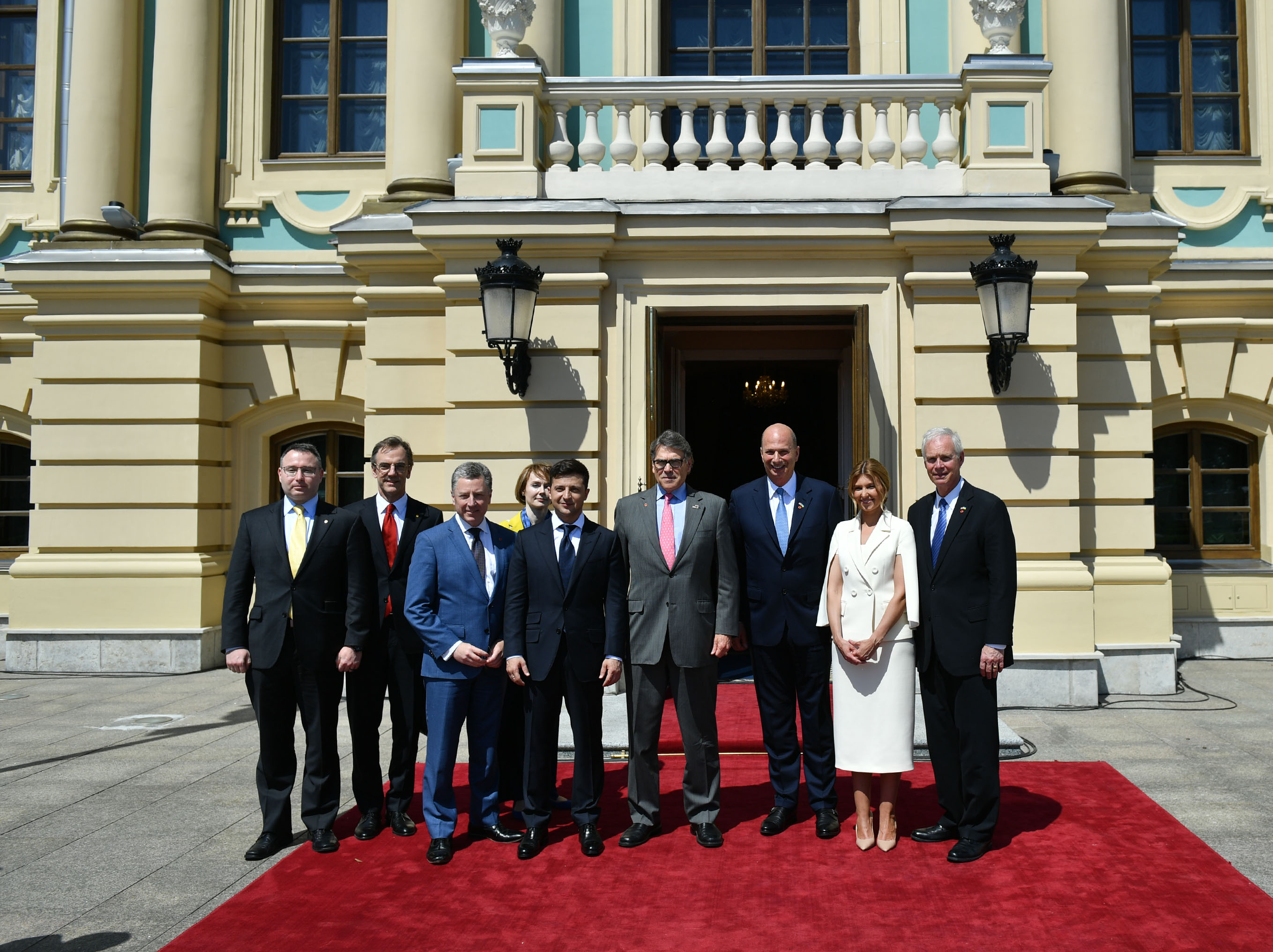 Volodymyr Zelensky presidential inauguration, 20th May 2019. Front row, left-to-right: Alexander Vindman, U.S. National Security Council, Director for European Affairs Joseph Pennington, U.S. Acting Chargé d'Affaires Kurt Volker, U.S. Special envoy to Ukraine Volodymyr Zelensky, president of Ukraine Rick Perry, U.S. Secretary of Energy Gordon Sondland, U.S. Ambassador to the European Union Olena Zelenska, First Lady of Ukraine Ron Johnson, U.S. Senator from Wisconsin Partially obscured, behind Volodymyr Zelensky: Olena Zerkal, Deputy Minister of Foreign Affairs of Ukraine.